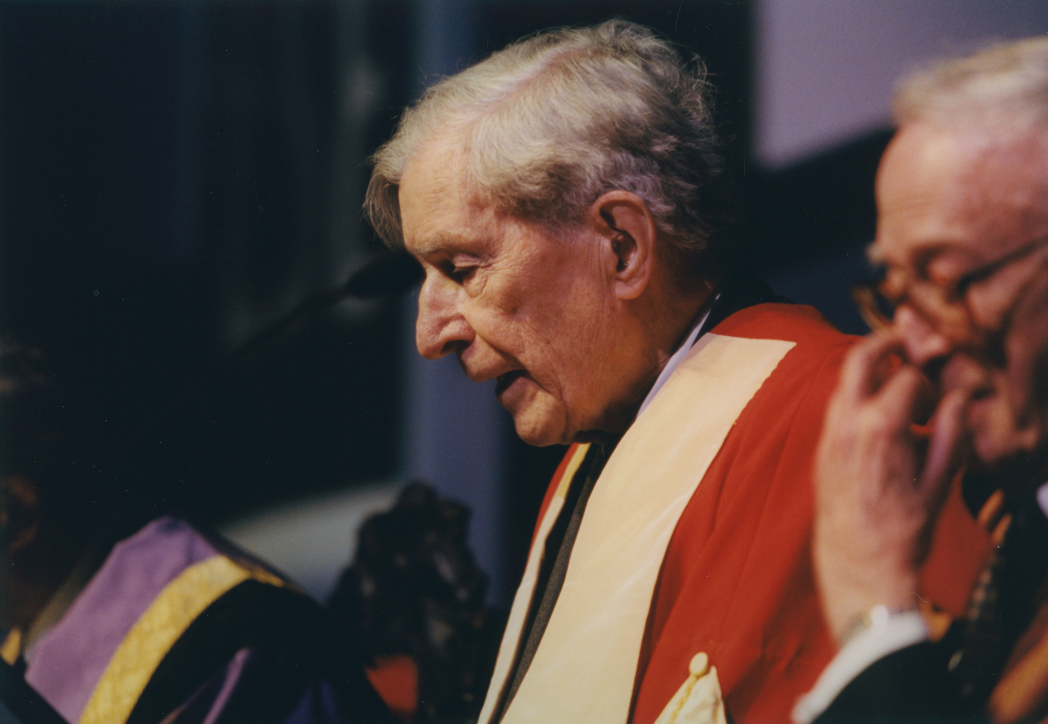 Professor Galbraith, economist, speaking in the Peacock Theatre after accepting an honorary degree from LSE. Taken by Nigel Stead. IMAGELIBRARY/881 Persistent URL